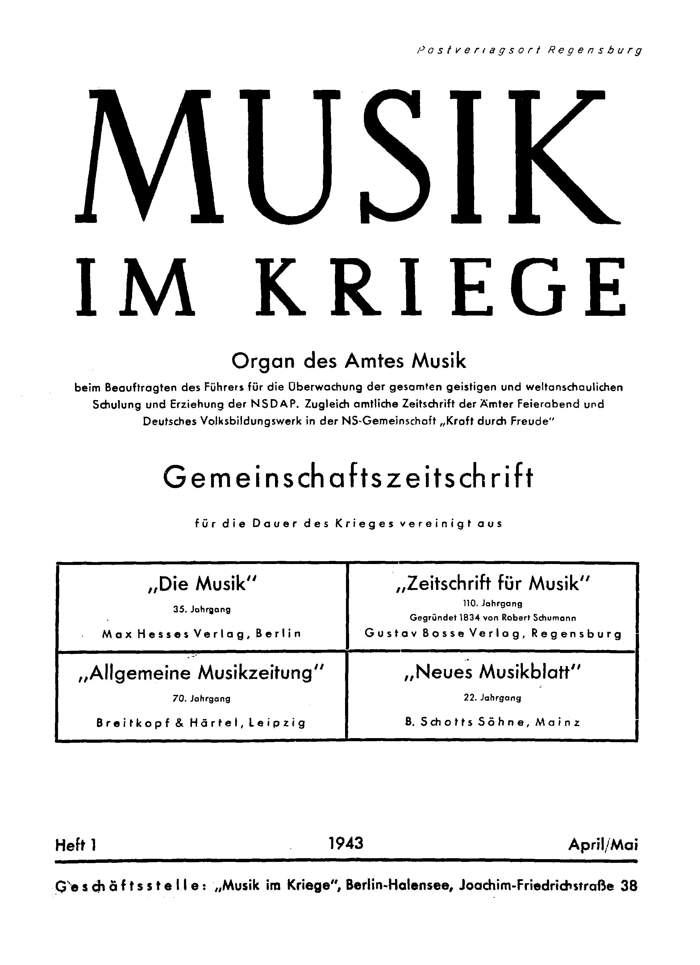 Title page of the periodical.